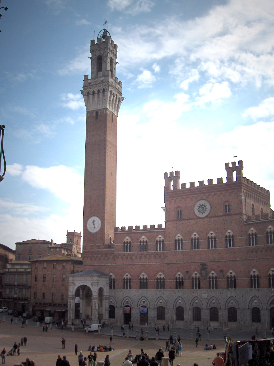 Palazzo Pubblico and Torre del Mangia; Siena, Italy Own photo - photo made by Georges Jansoone on 11 October 2005